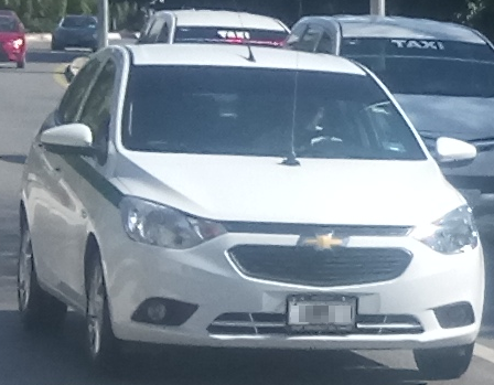 2018-present Chevrolet Aveo photographed in Cancun, Quintana Roo, Mexico .